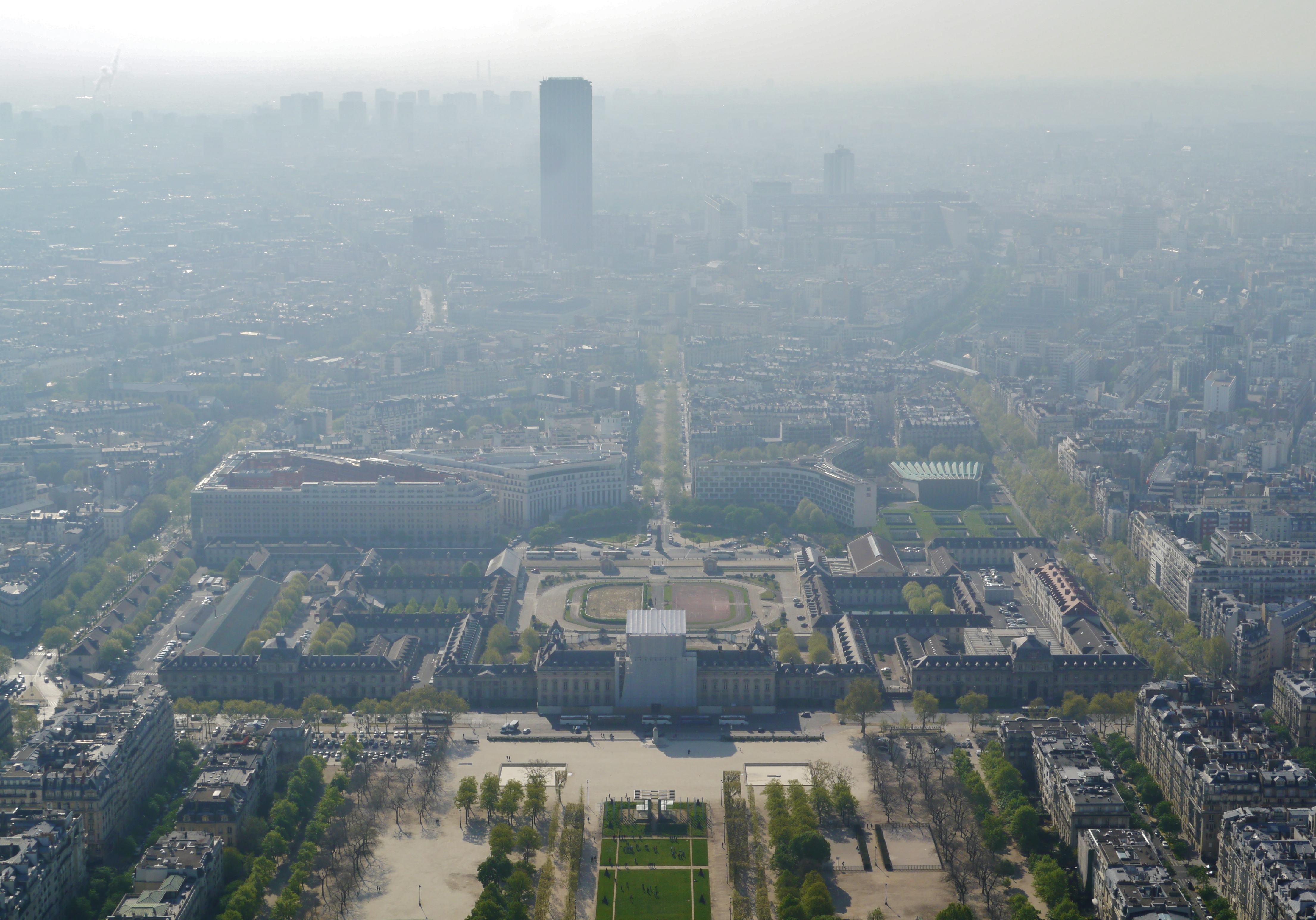 View from the first Floor of the Eiffel Tower to Montparnasse, Paris, Region of Île-de-France, France